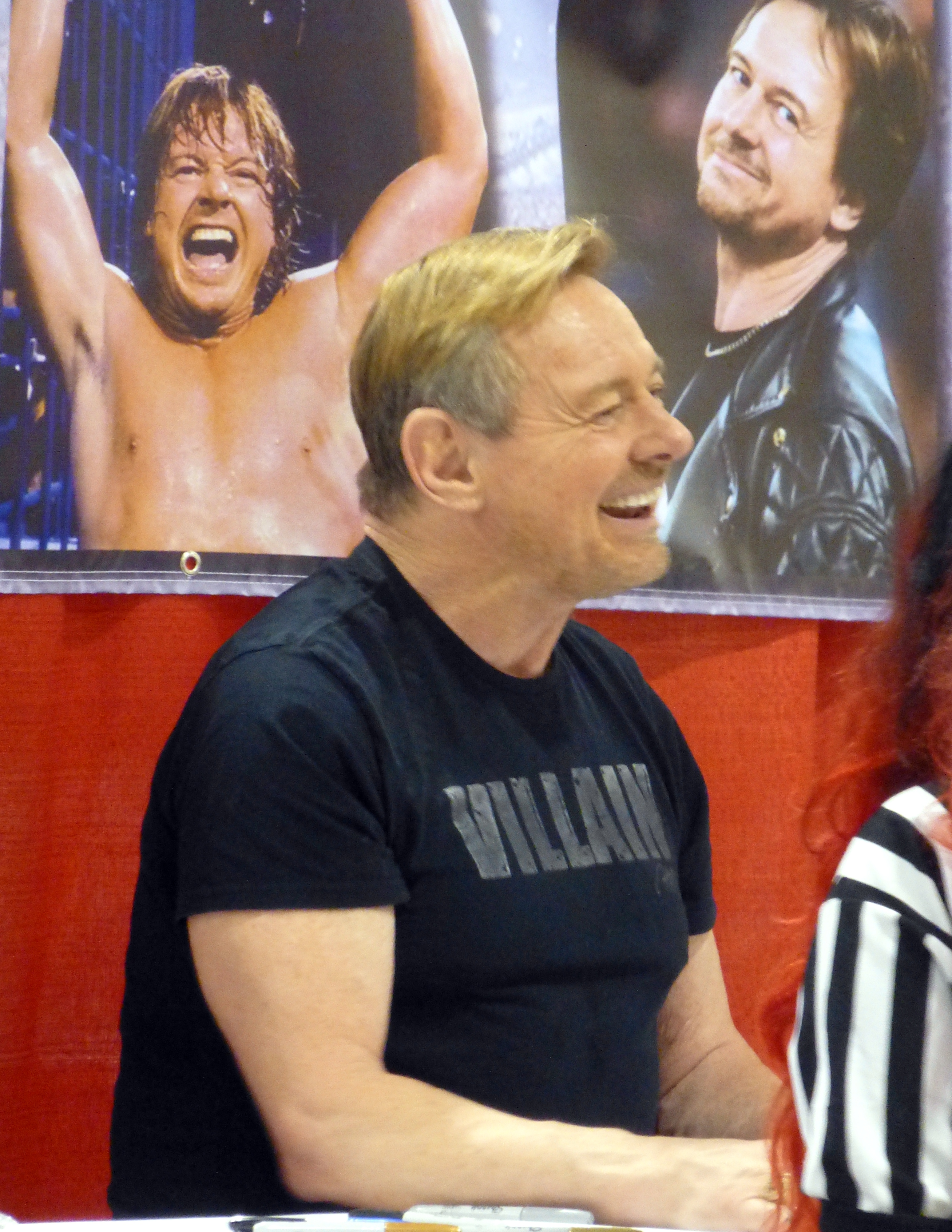 Roddy Piper Motor City Comic Con 2015